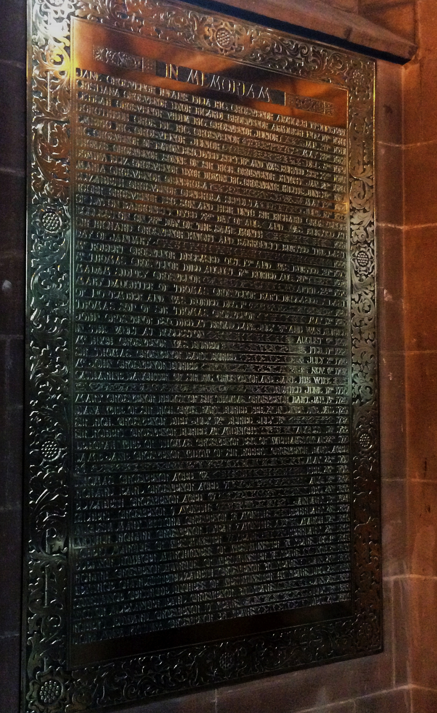 St Mary's Church Eccleston, brass plaque in the north aisle listing those members of the Grosvenor family who were buried in the vault once part of Porden's old church (now part of the Old Churchyard)